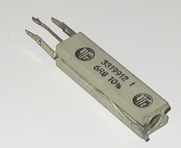 High-Power Electric Resistor with Fusesoldering